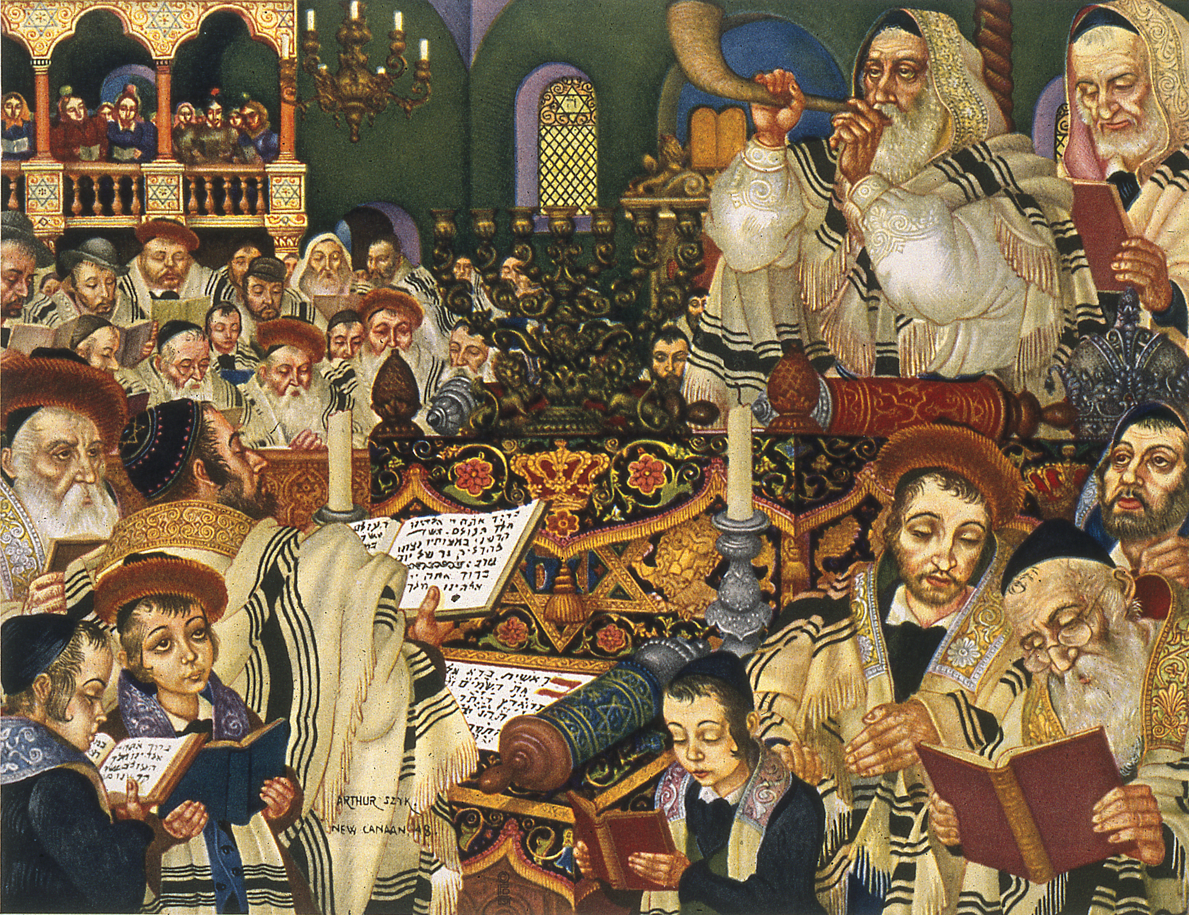 Szyk's illustration of Rosh Hashanah, from The Holiday Series: Six Paintings of Jewish Holidays.